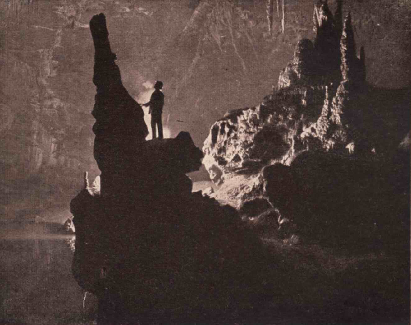 Baradla Cave, Hungary.